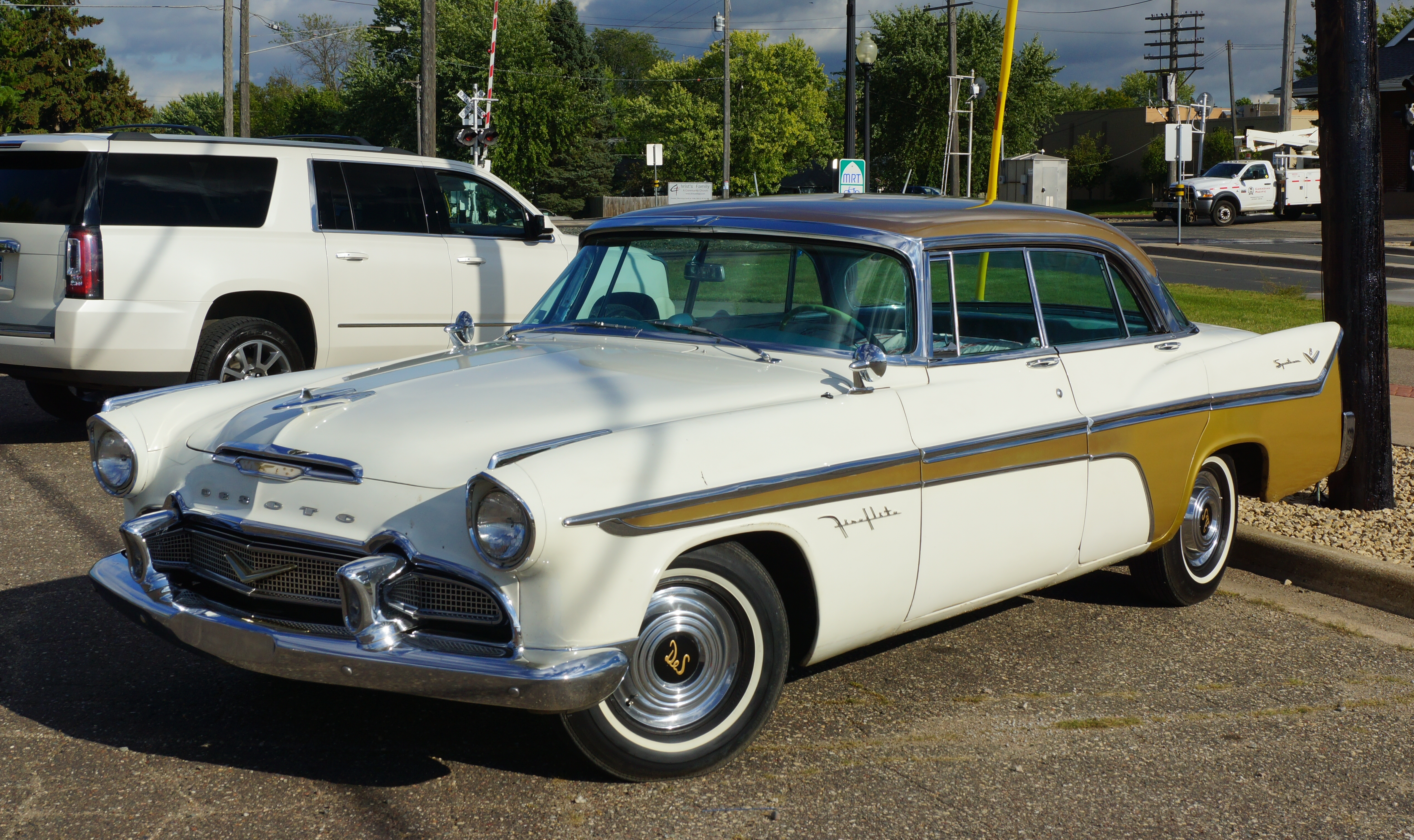 HISTORIC DOWNTOWN HASTINGS CRUISE-IN & CLASSIC CAR SHOW Hastings, Minnesota Late September 2016 Click here for more car pictures at my Flickr site.